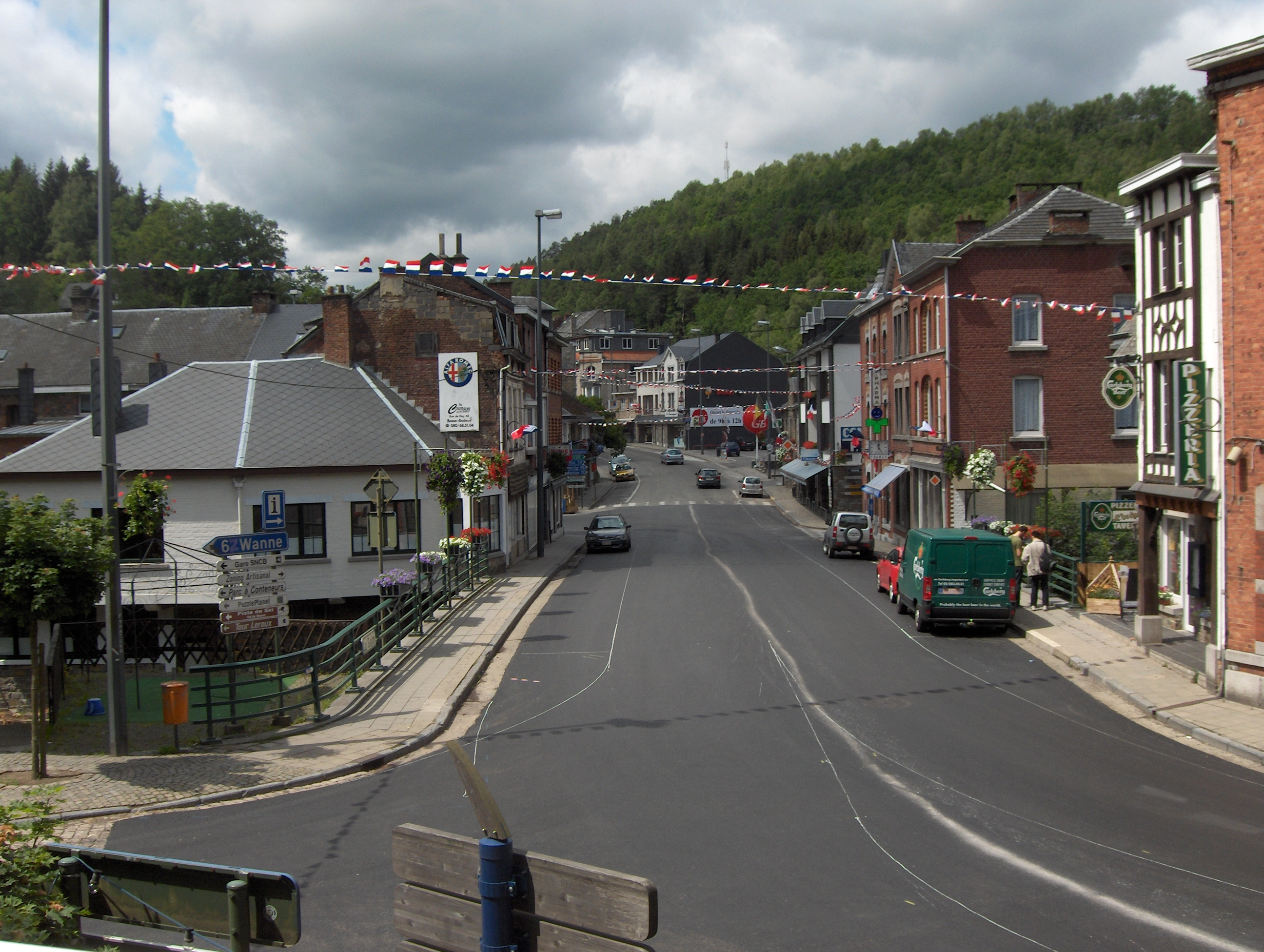 The center of Trois-Ponts (Belgium)